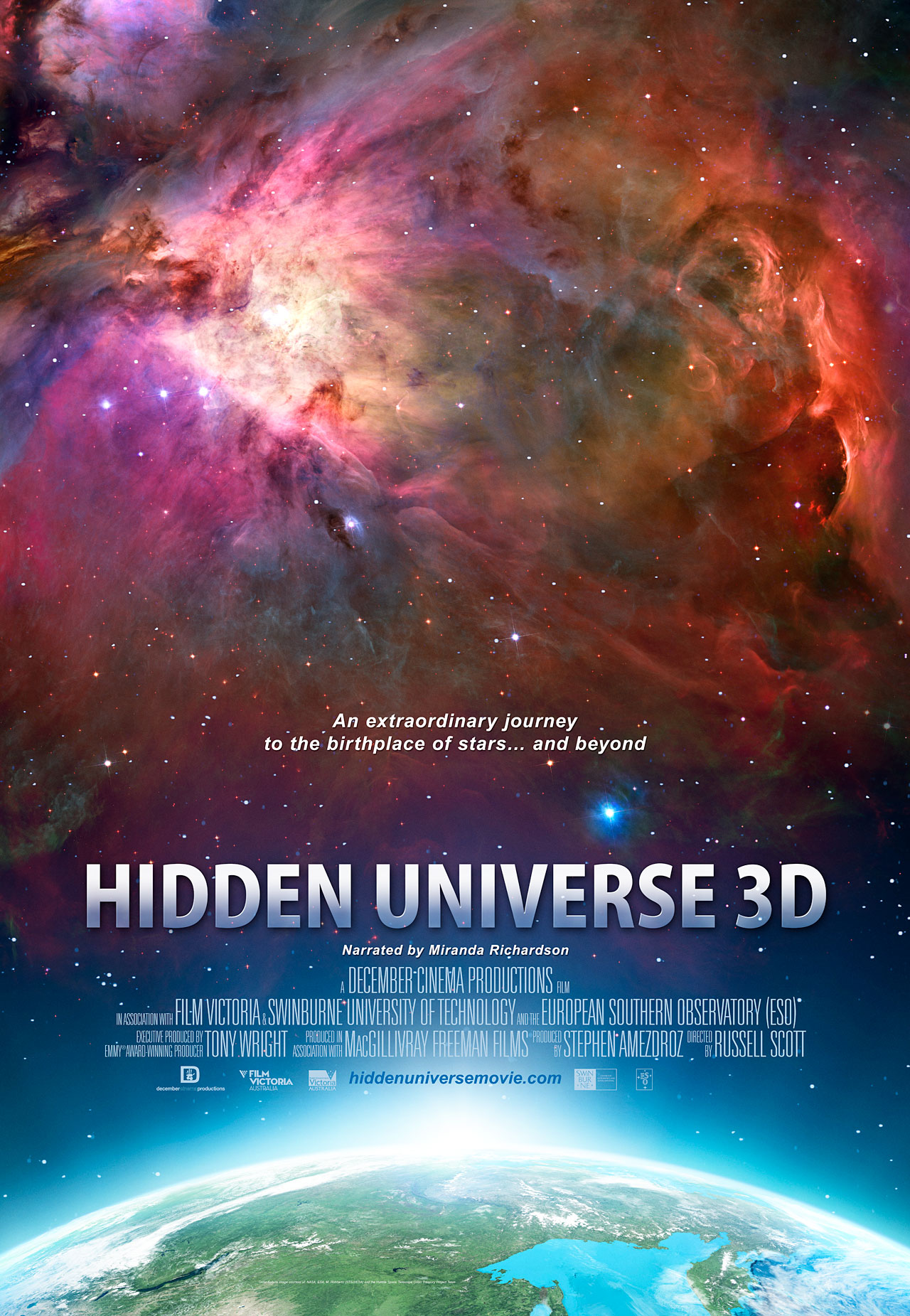 The 3D production Hidden Universe, released in IMAX® theatres and giant-screen cinemas around the globe and produced by the Australian production company December Media in association with Film Victoria, Swinburne University of Technology, MacGillivray Freeman Films and ESO.